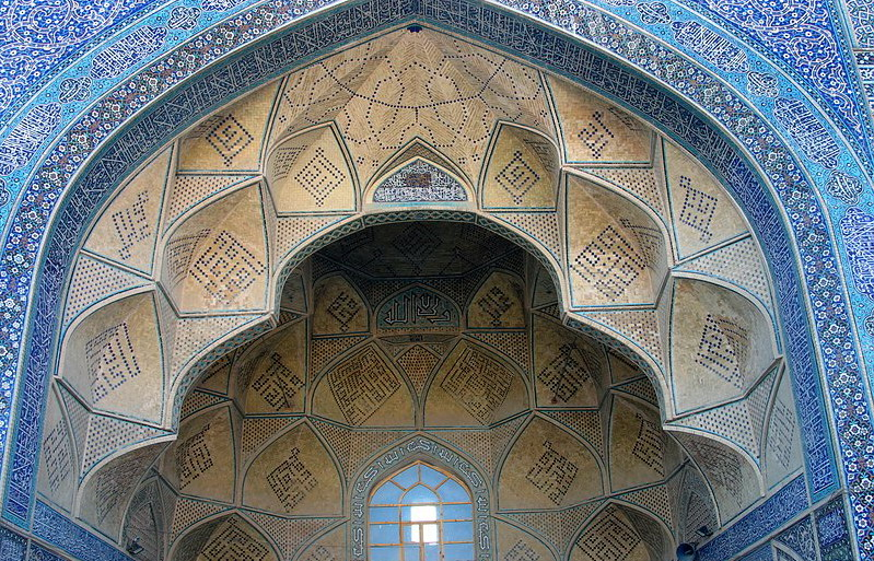 The south iwan of Jamé mosque, Isfahan. Photo courtesy of If used outside Wikipedia, please credit: "Photo courtesy of